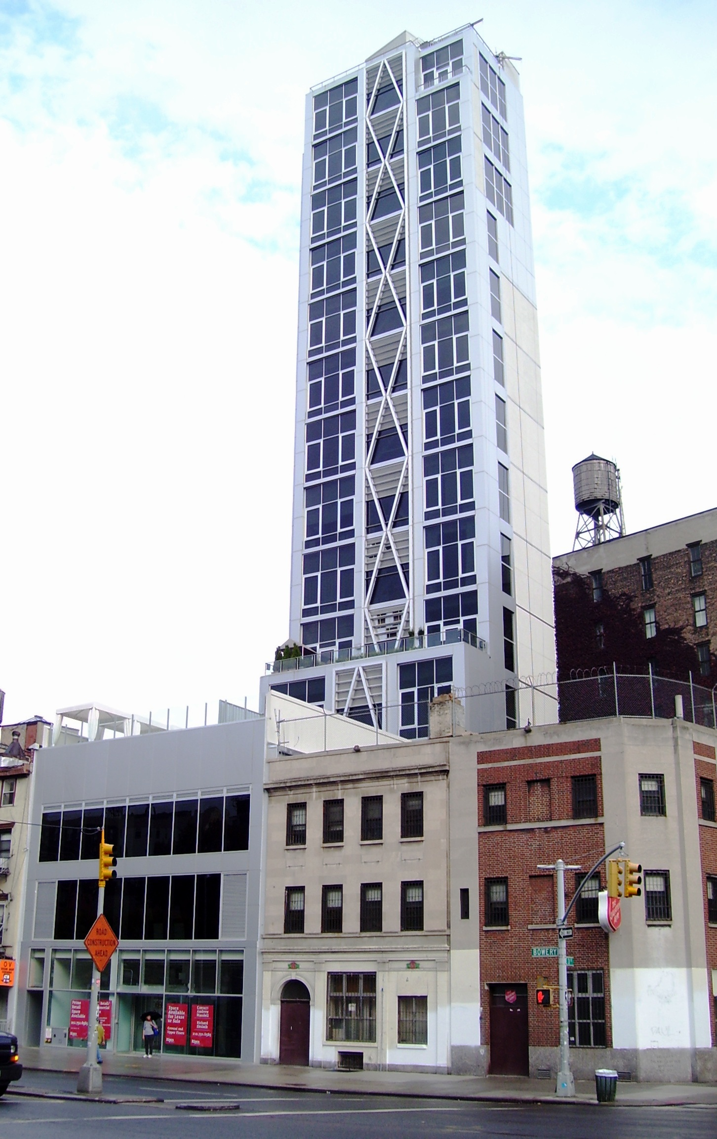 52 East 4th Street, also known as 351-353 Bowery, is a commercial and residential condominium designed by Robert Scarano which was completed in 2009. The residential tower stands set back from the Bowery between 3rd and 4th Streets, and has a private entrance/driveway on 4th Street.